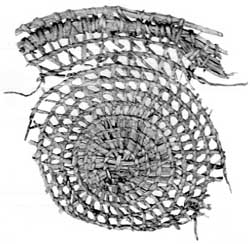 Remains of a woven, Chinookan, cedar-bark basket recovered from the Sunken Village Archeological Site in Oregon, United States, which illustrates the exceptional state of preservation of materials at this site. The site is a US National Historic Landmark.